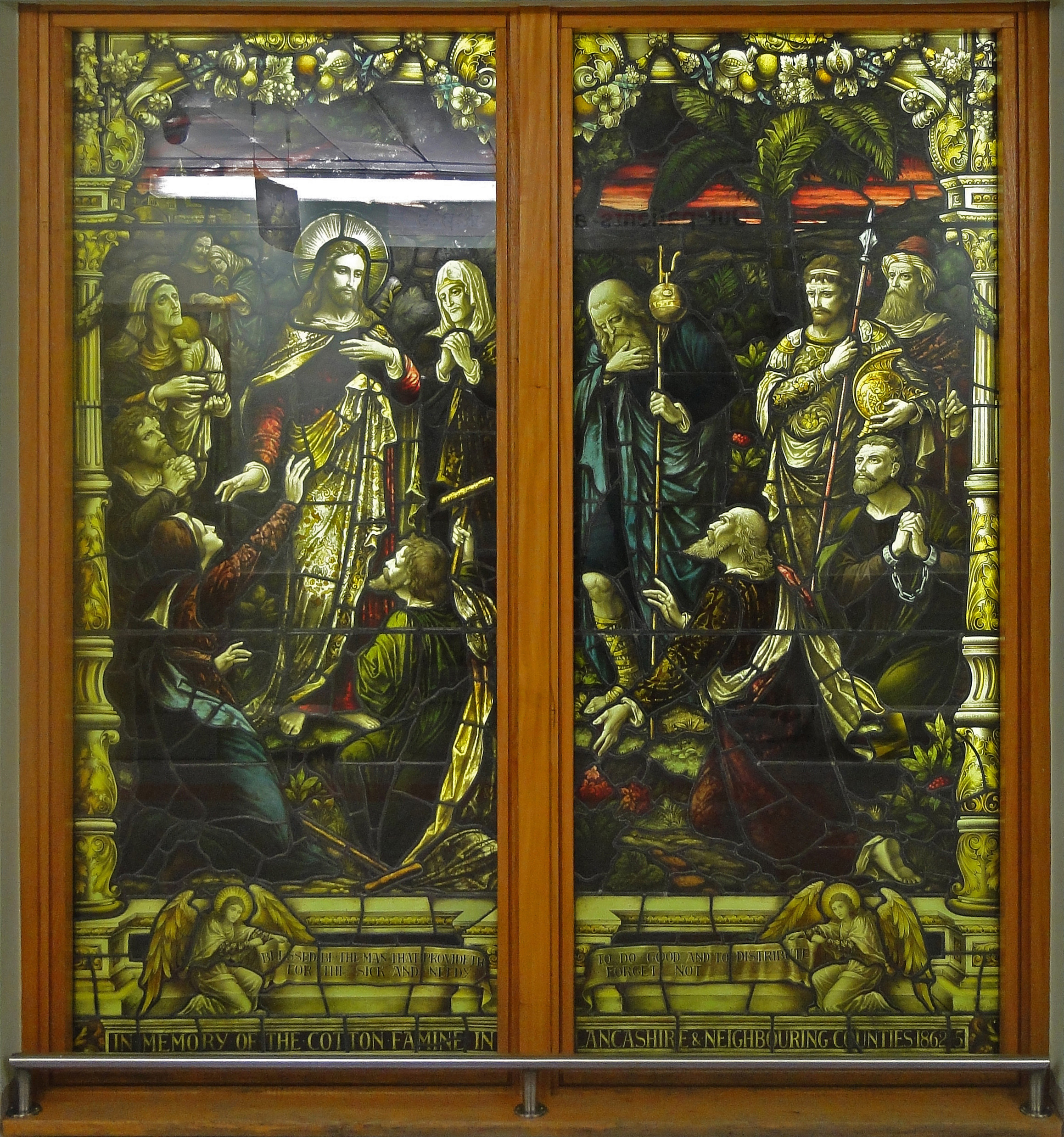 Stained glass window commissioned in 1896 by the Governors of the Cotton Districts Convalescent Fund for the Cotton Districts Convalescent Home in Southport, Lancashire, made by Heaton, Butler and Bayne of London at a cost of £150 The home was part of the Southport Convalescent and Seabathing hospital which was taken over by the Ministry of Health as an emergency hospital in 1940 and retained by them on the creation of the National Health Sevice under the provisions of the National Health Act of 1946. In 1970 Governors of the fund resolved to repossess the window and have it transferred to the Chapel of Rest at Ancoats Hospital. On the closure of the main part of Ancoats hospital the window was renovated by Hospital Arts and re-sited at North Manchester General Hospital. The Legend at the bottom of the window reads: "In memory of the cotton famine in Lancashire and neighbouring counties 1862-65" The mottos on the banners held by the angels read: "Blessed be the man that provideth for the sick and needy" and "To do good and distribute forget not" The convalescent fund was established as a charity in 1875 out of the undistributed surplus of £177,000 left on the closure of the fund set up by the Cotton Relief Committee in 1861 to help those suffering from the effects of the Cotton Famine. The fund still exists today and provides a limited number of convalescent holidays for qualifying applicants